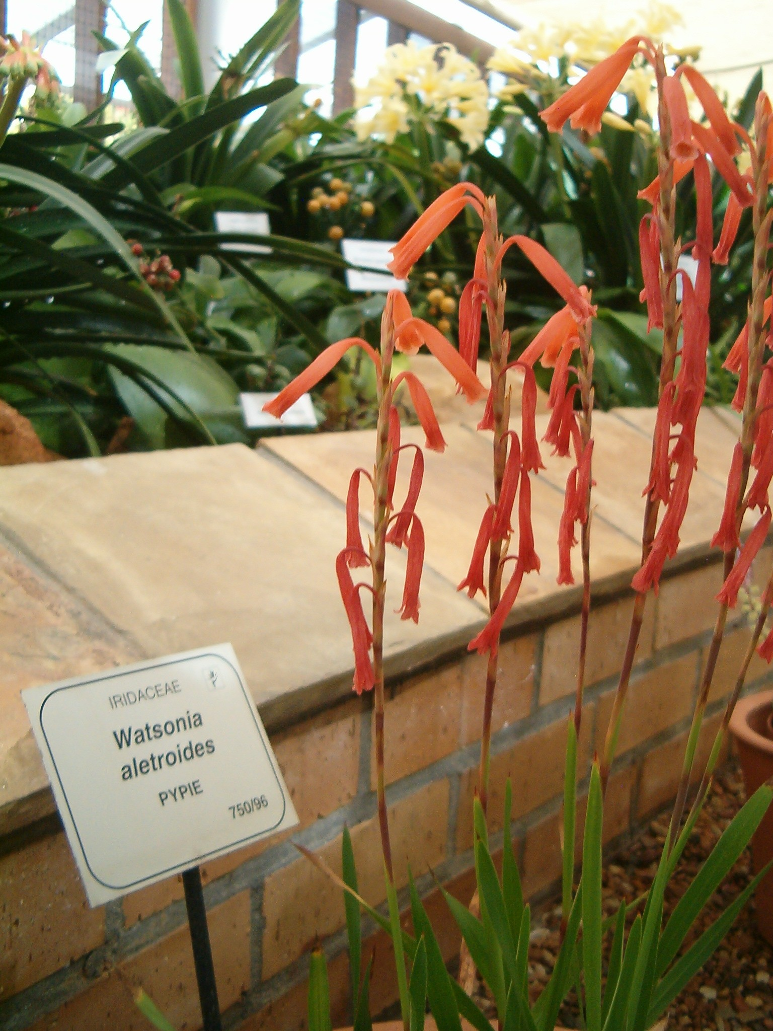 At Kirstenbosch National Botanical Gardens Species Watsonia aletriodes